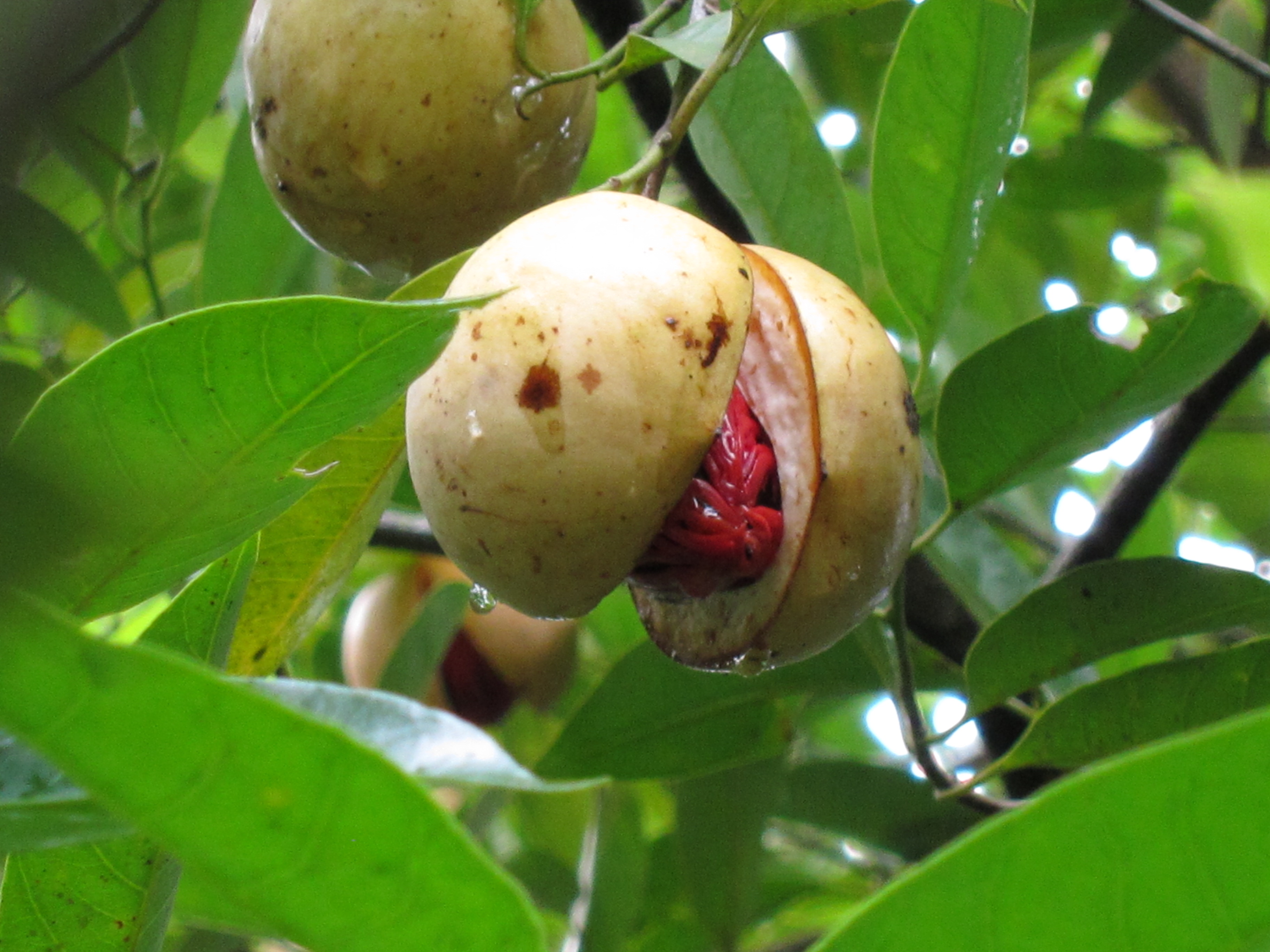 Myristica Fragrans